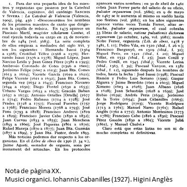 Higini Anglès musicians valencia cathedral